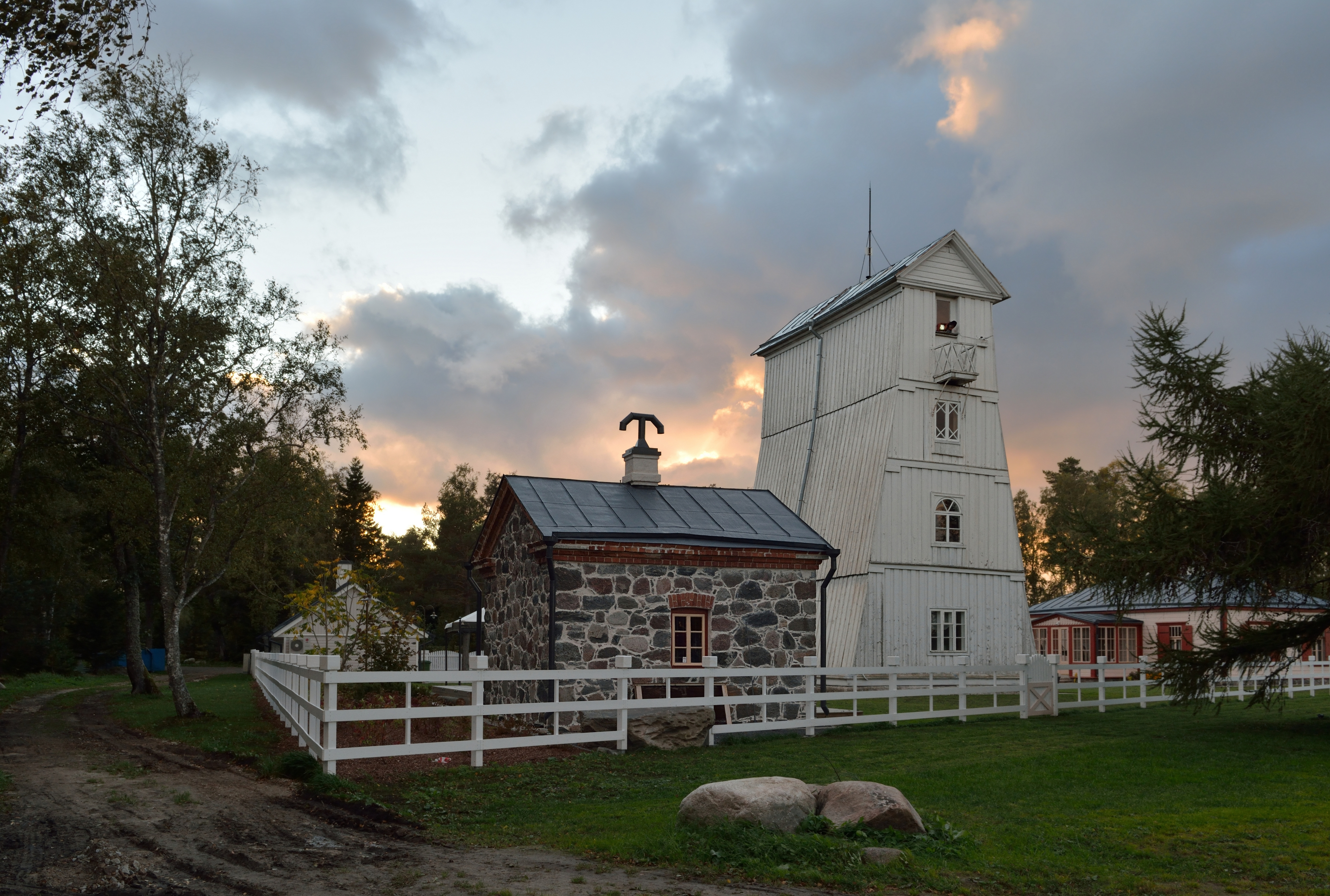 Suurupi front lighthouse, built in 1859. The wooden construction was renovated in 1885 and the lighthouse was built a storey higher. Light height from ground is 15 m, from sea level 18 m.